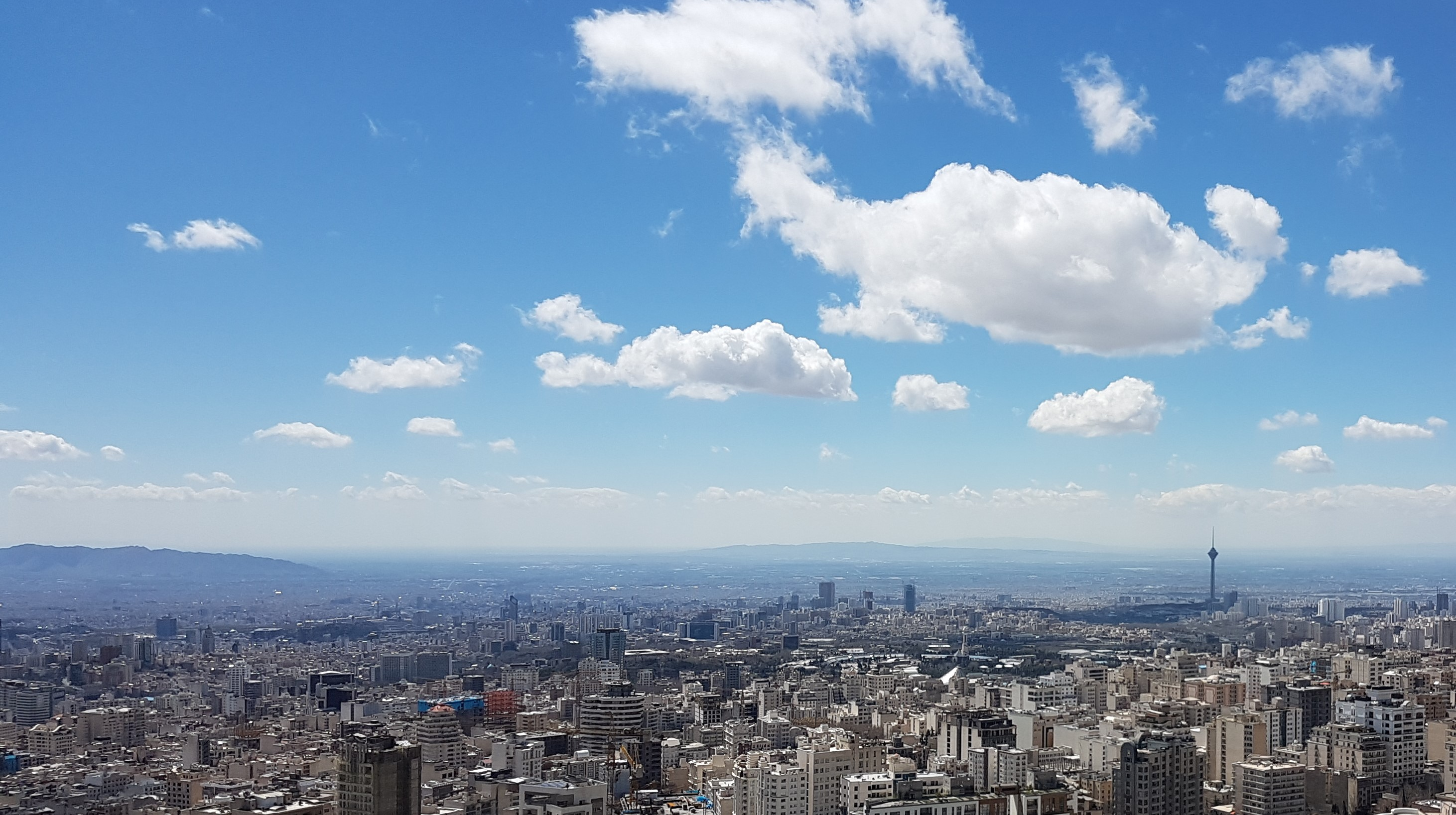 Tehran